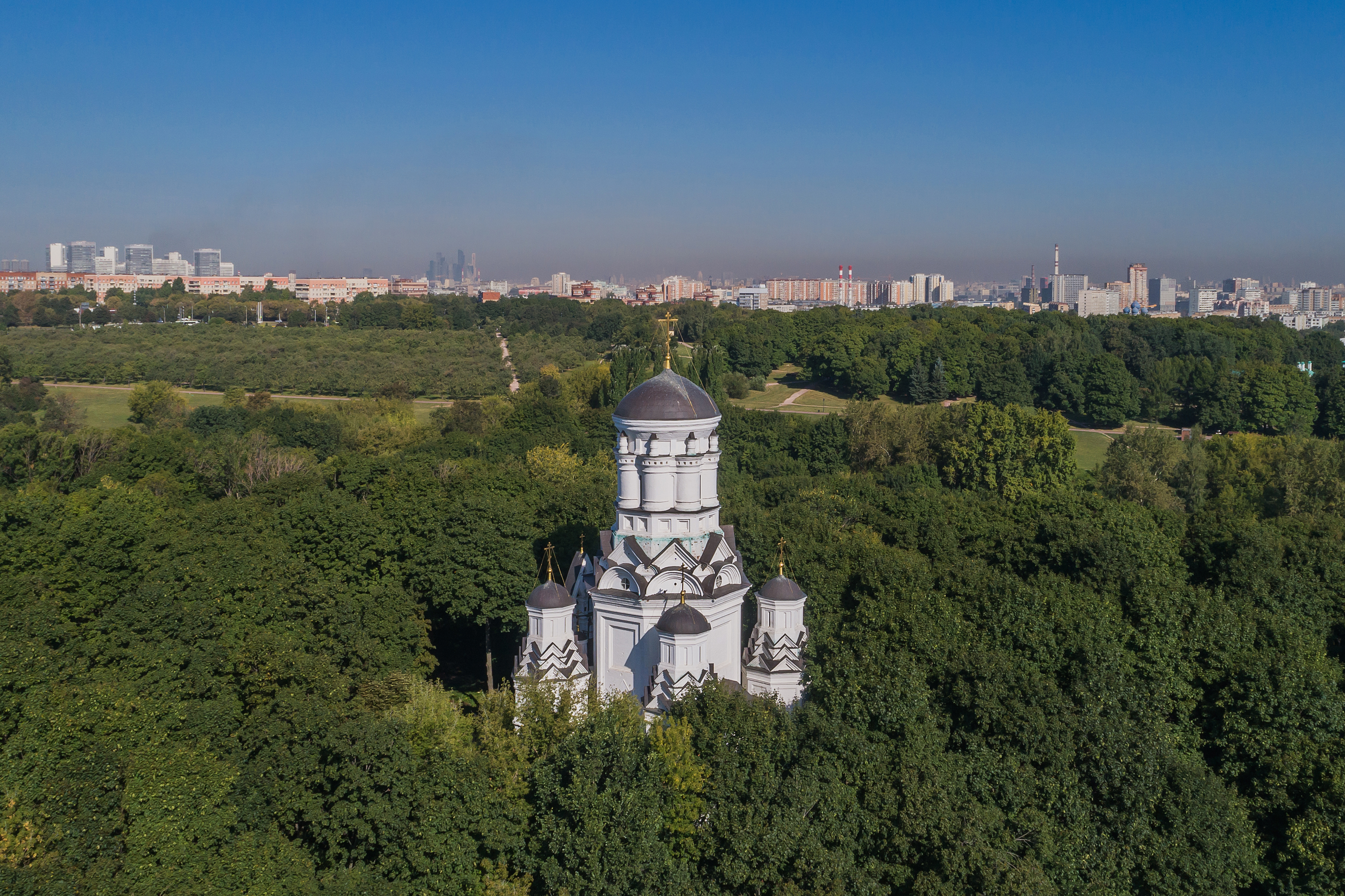 Aerial photo of Kolomenskoe park and estate in Moscow, Russia.